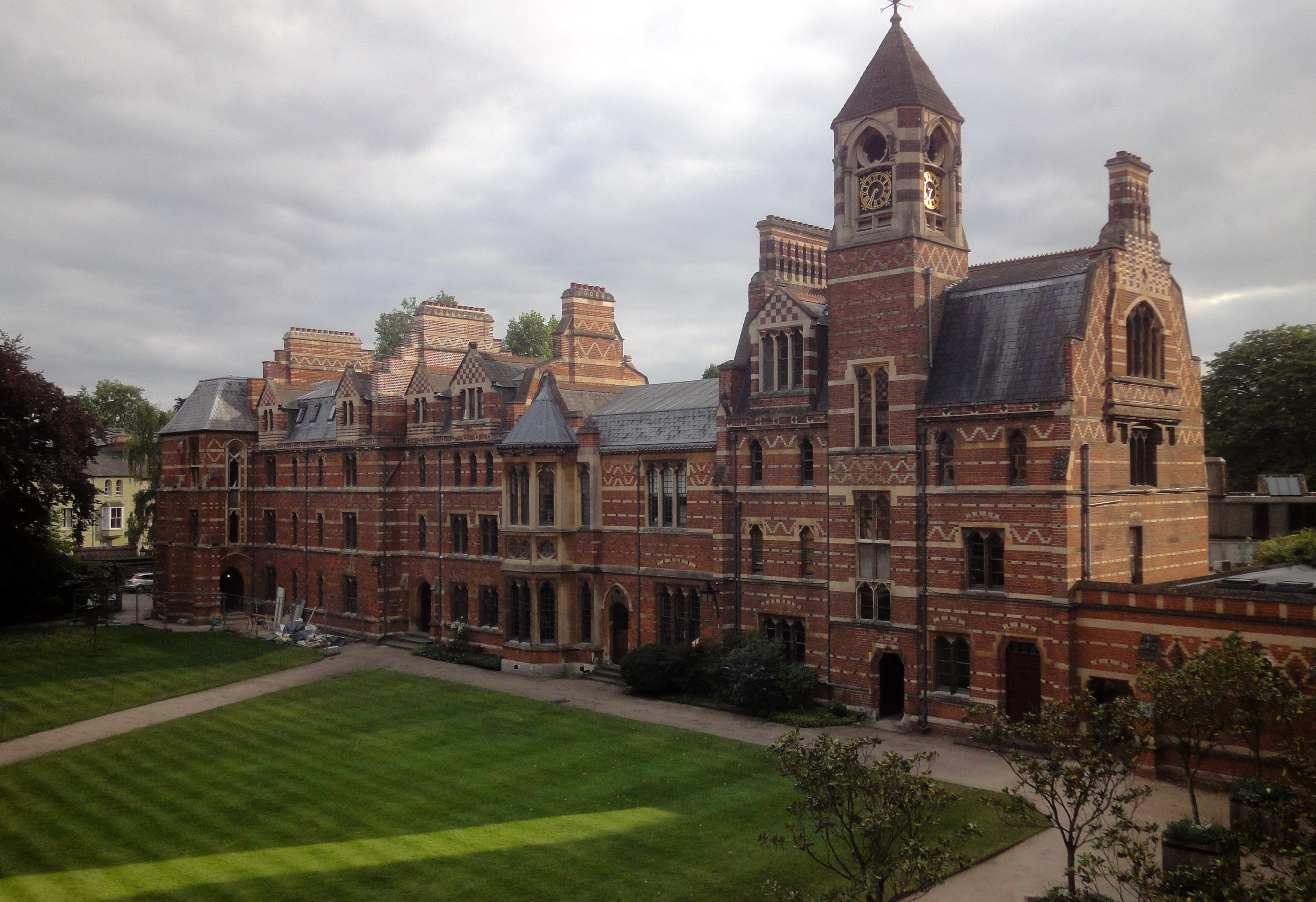 Part of Keble College, Oxford